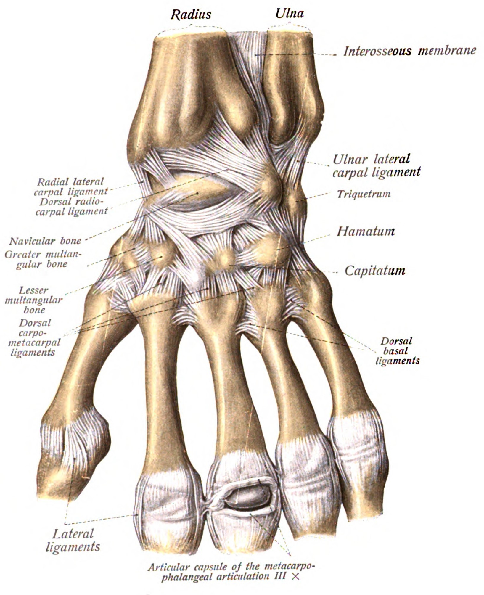 An anatomical illustration from the 1909 American edition of Sobotta's Atlas and Text-book of Human Anatomy with English terminology